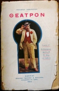 The first publish of the theatrical play, To fioro tou Levante